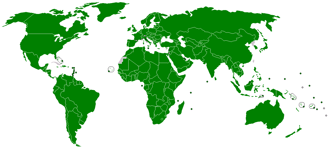 IMF members - same as IBRD members